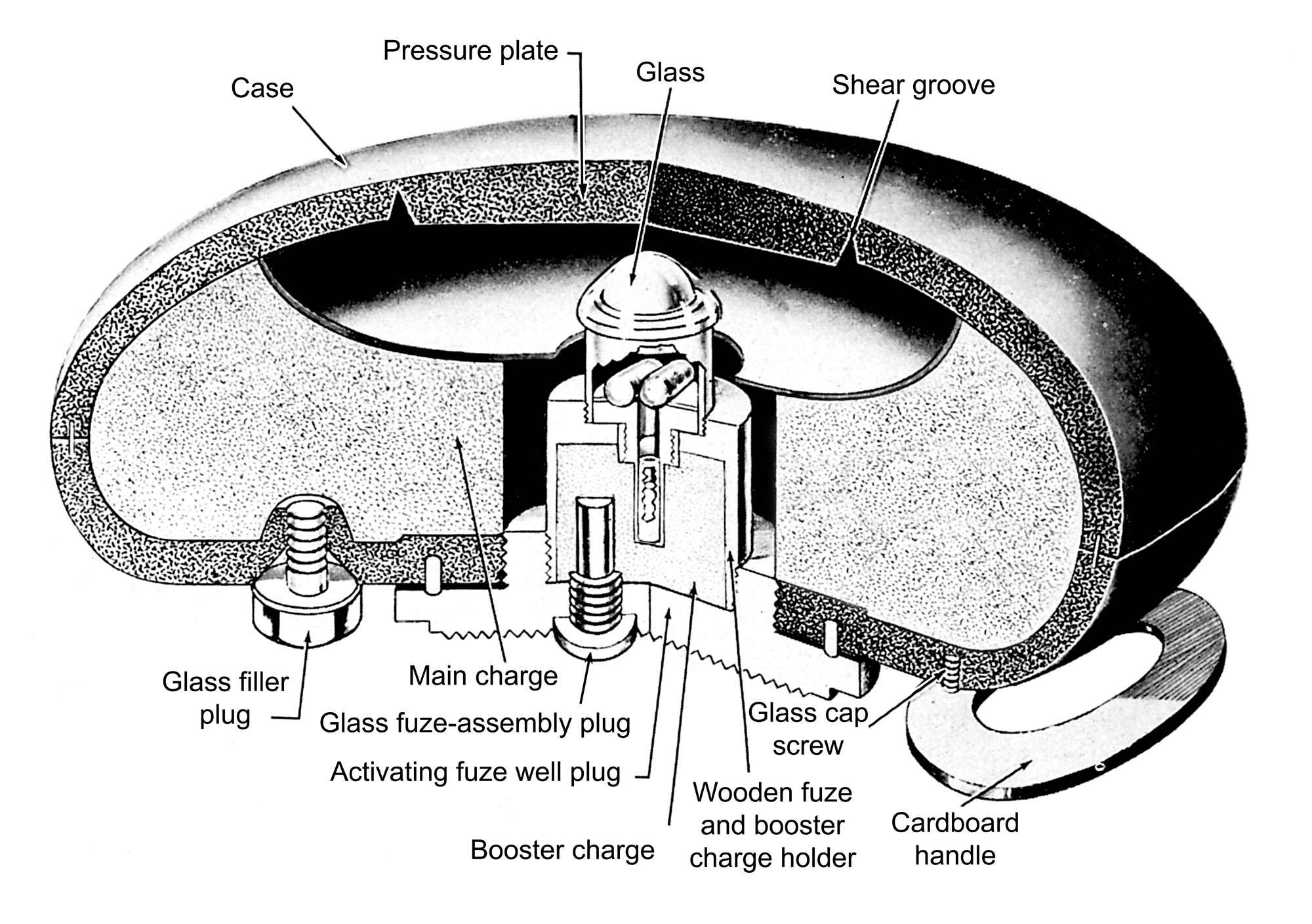 German Topfmine B anti-tank landmine.